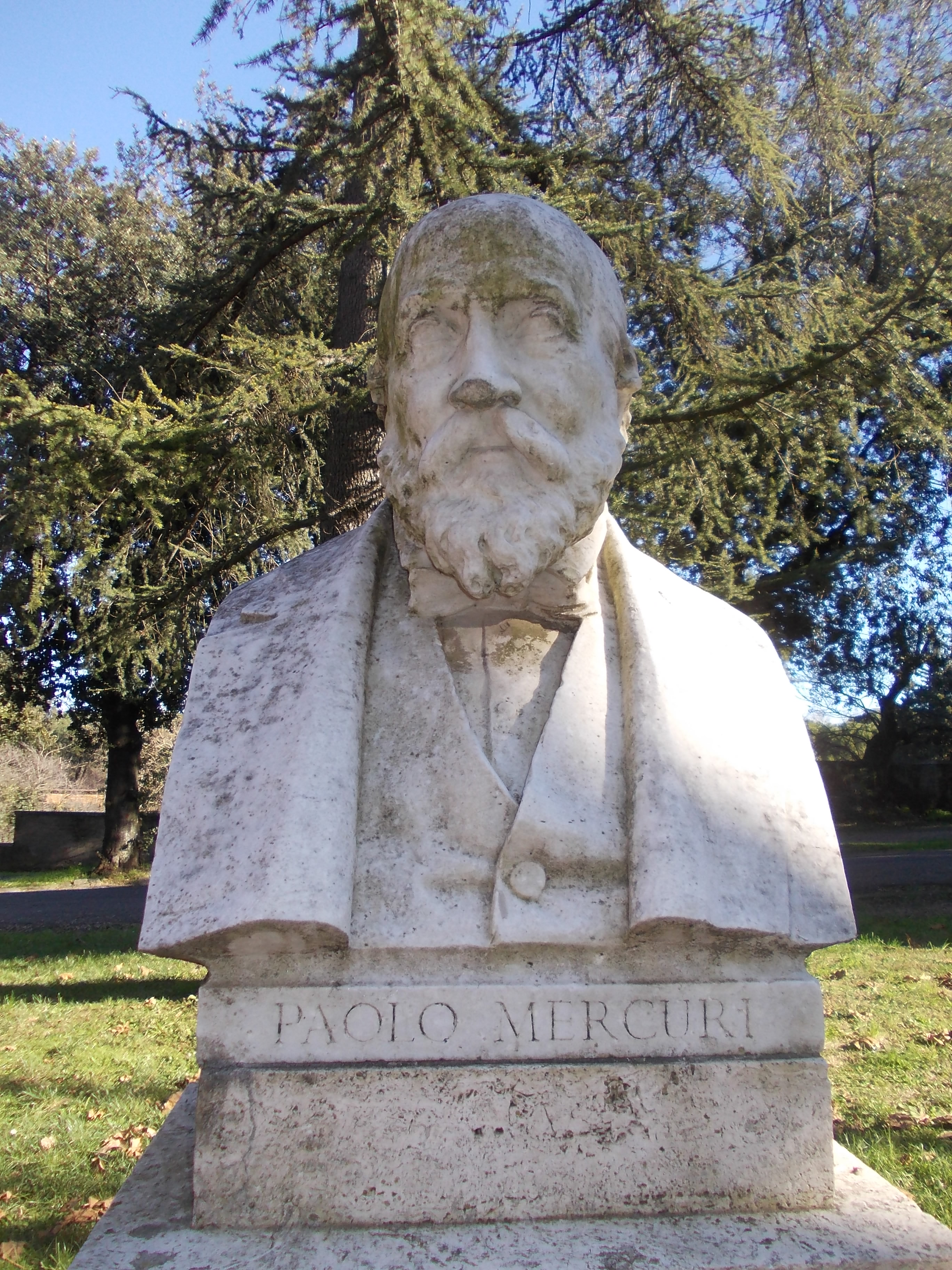 Marble bust of Paolo Mercuri at Pincio, in Rome